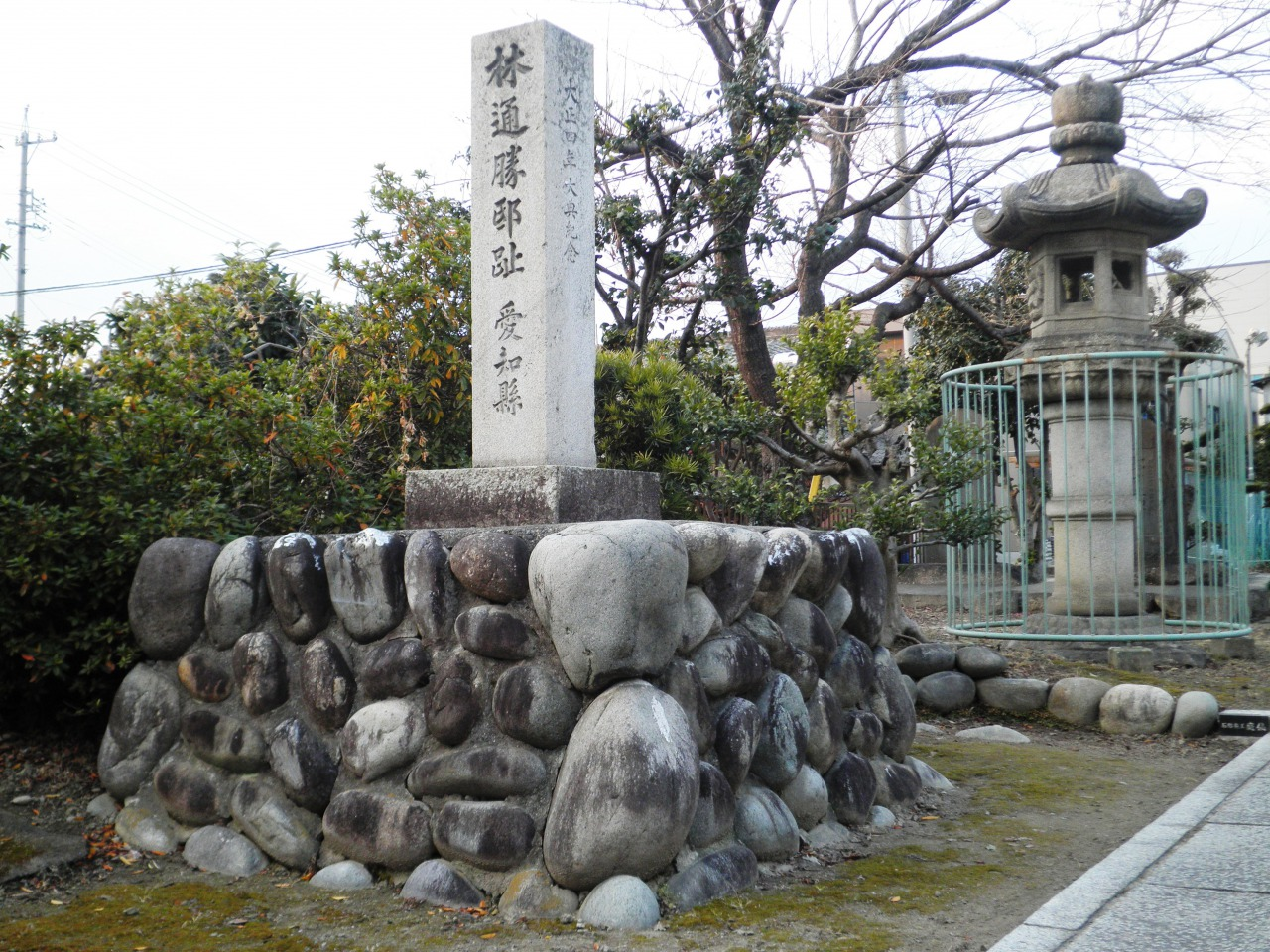 Site of Hayashi Michikatsu's Residence.